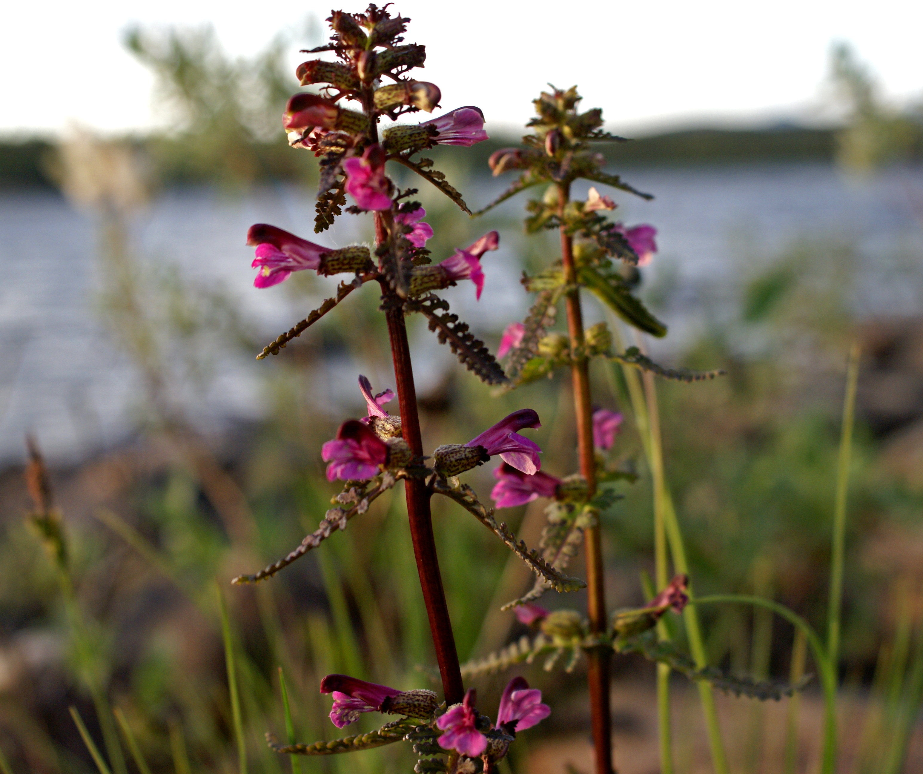 Marsh Lousewort